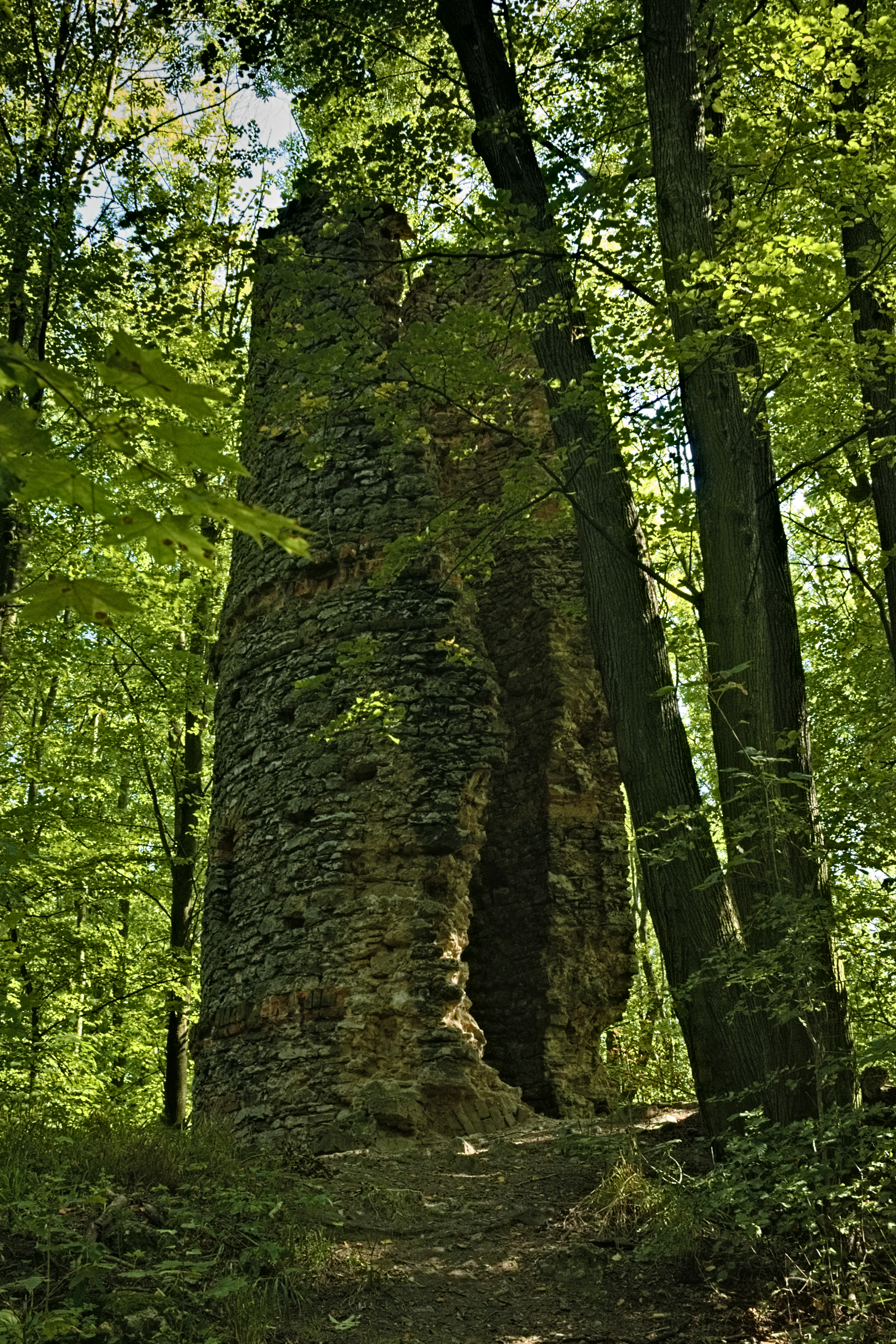 ruins of romantic artificial ruins of castle (only one remaining tower of four) in Orzech, Tarnowskie Góry powiat, Poland